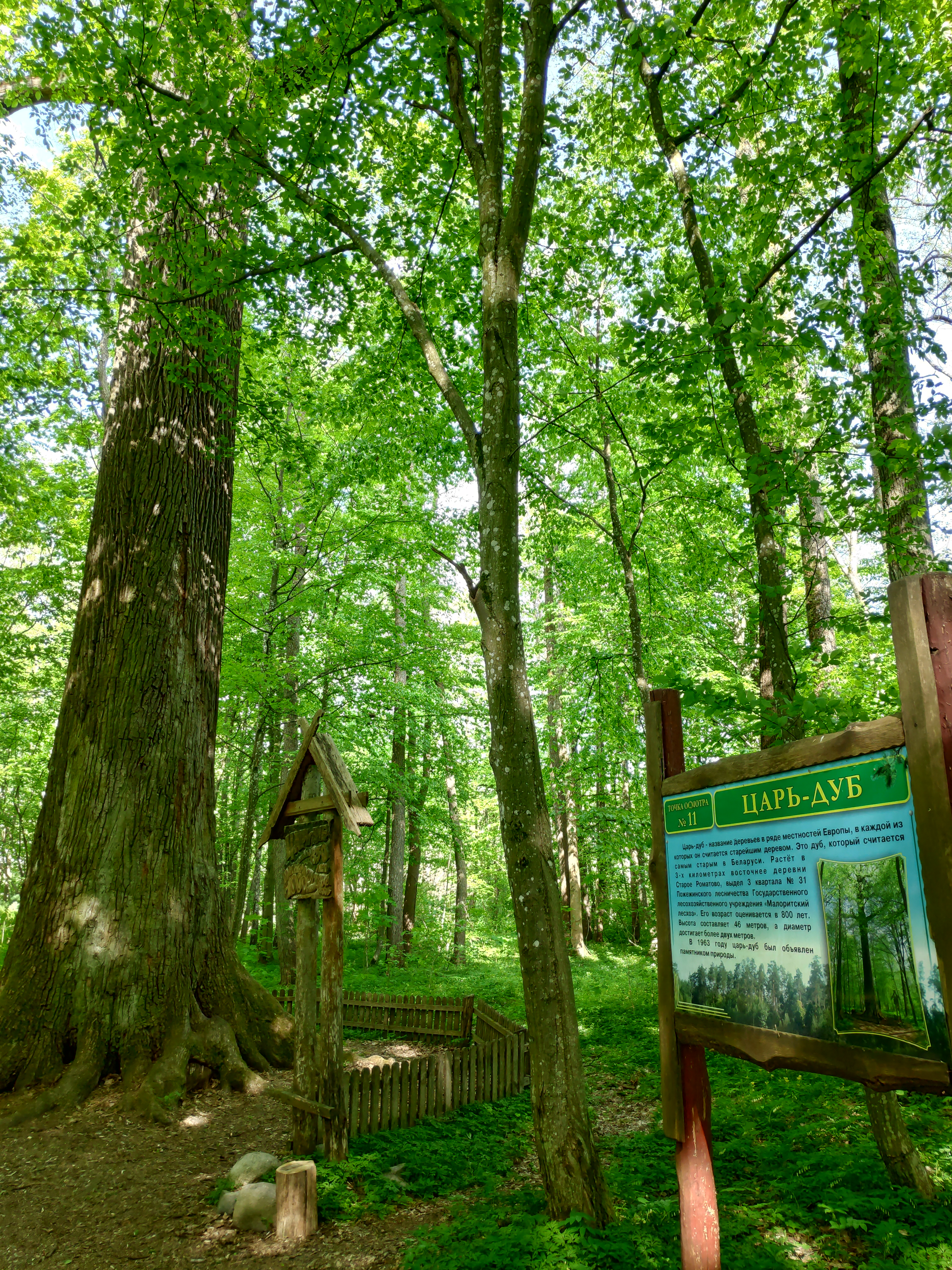 Located in 3 km east from village Staroe Ramatova, or 3 km south-east from village Novae Ramatova. Over 800 years old, 46 meters high, over 2 meters in diameter.